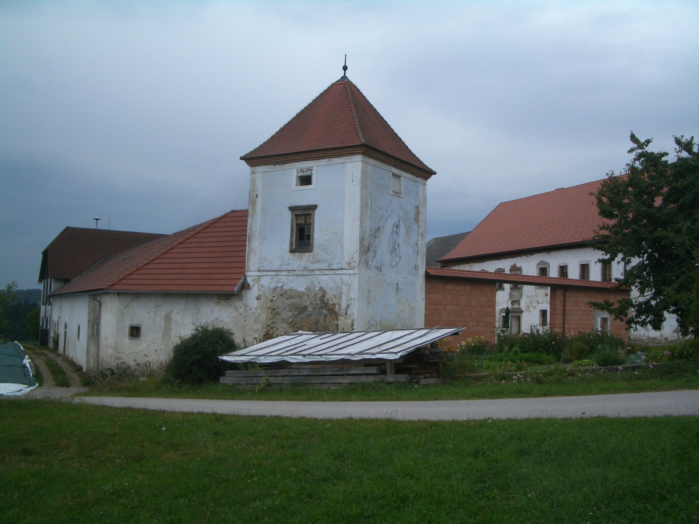 Former castle in Aich, Bad Zell, Upper Austria